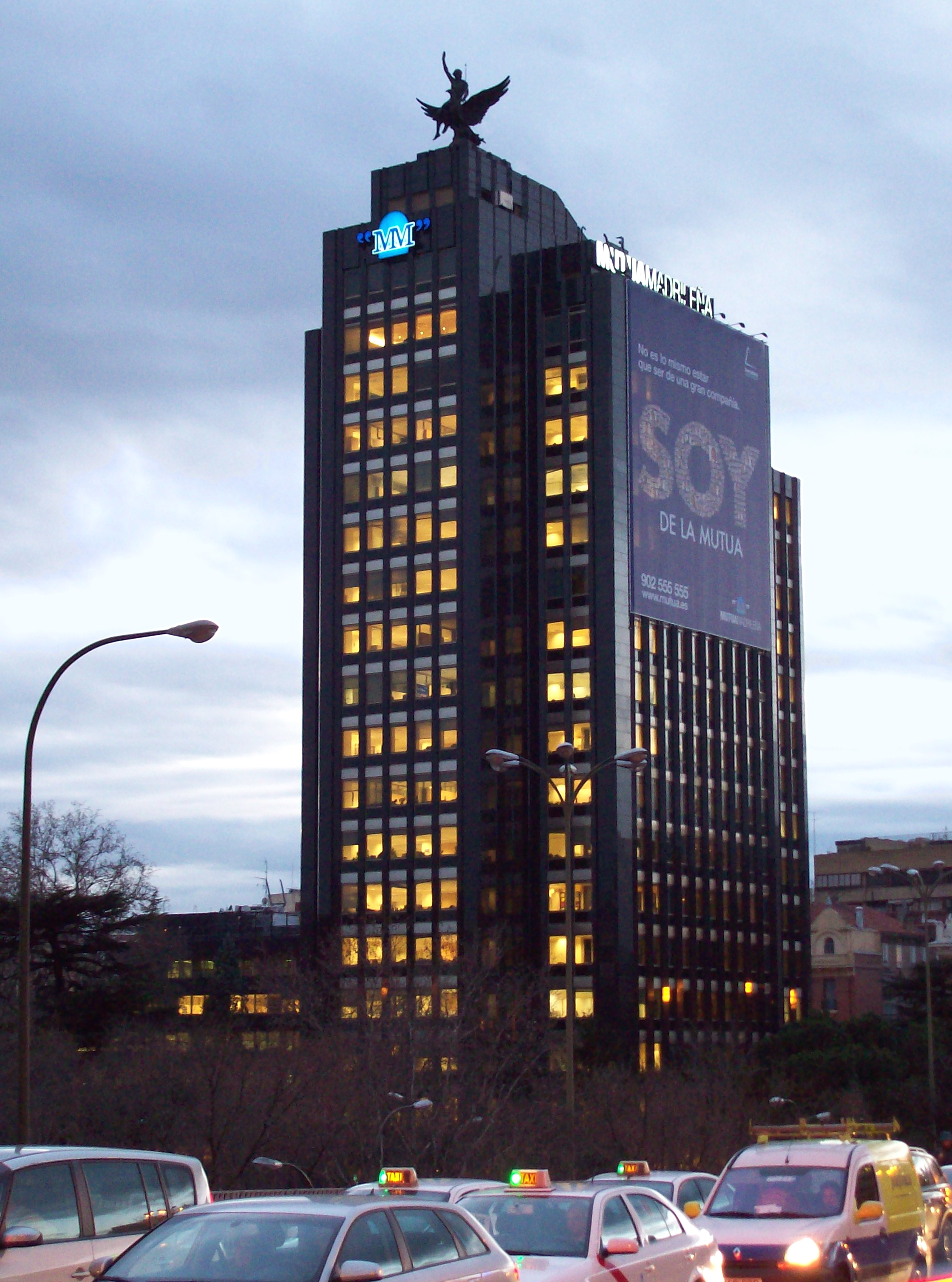 View, at dusk, of La Unión y el Fénix Español building at 33 Paseo de la Castellana (avenue) in Madrid (Spain). It was projected in 1965 by architect Luis Gutiérrez Soto and built from 1966 to 1971. Nowadays it belongs to Mutua Madrileña. The sculpture at the top is a work by Julián Lozano.